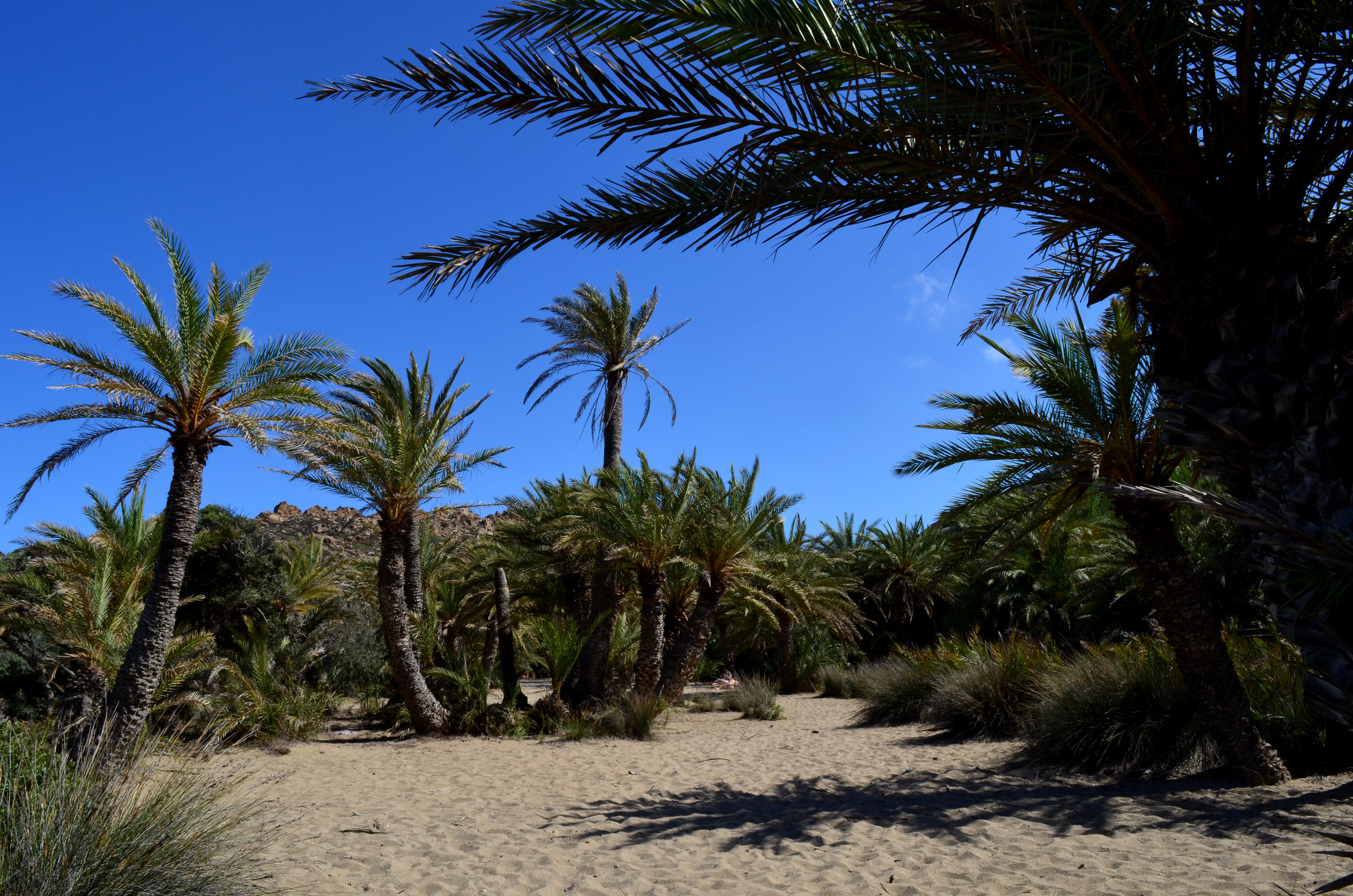 This is a photography of Natura 2000 protected area with ID GR4320006